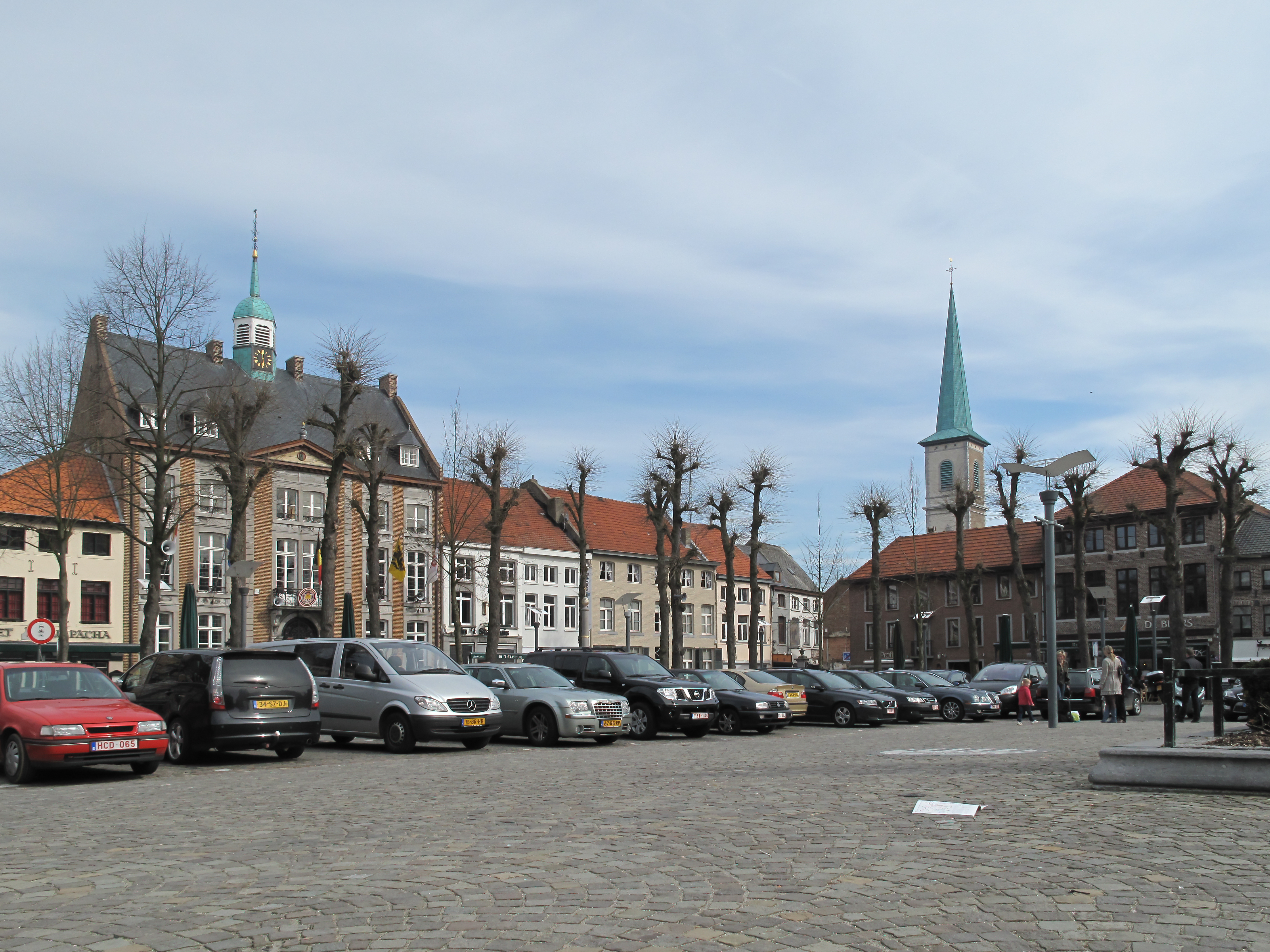 Maaseik, central square